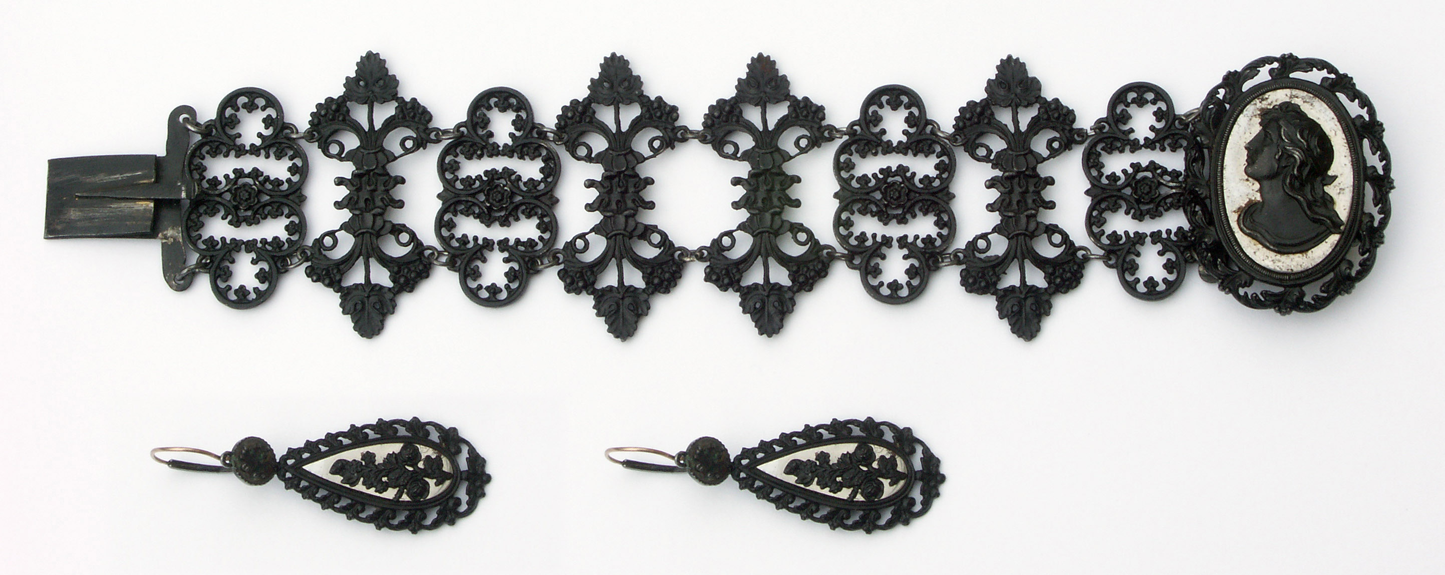 Berliner Eisenschmuck